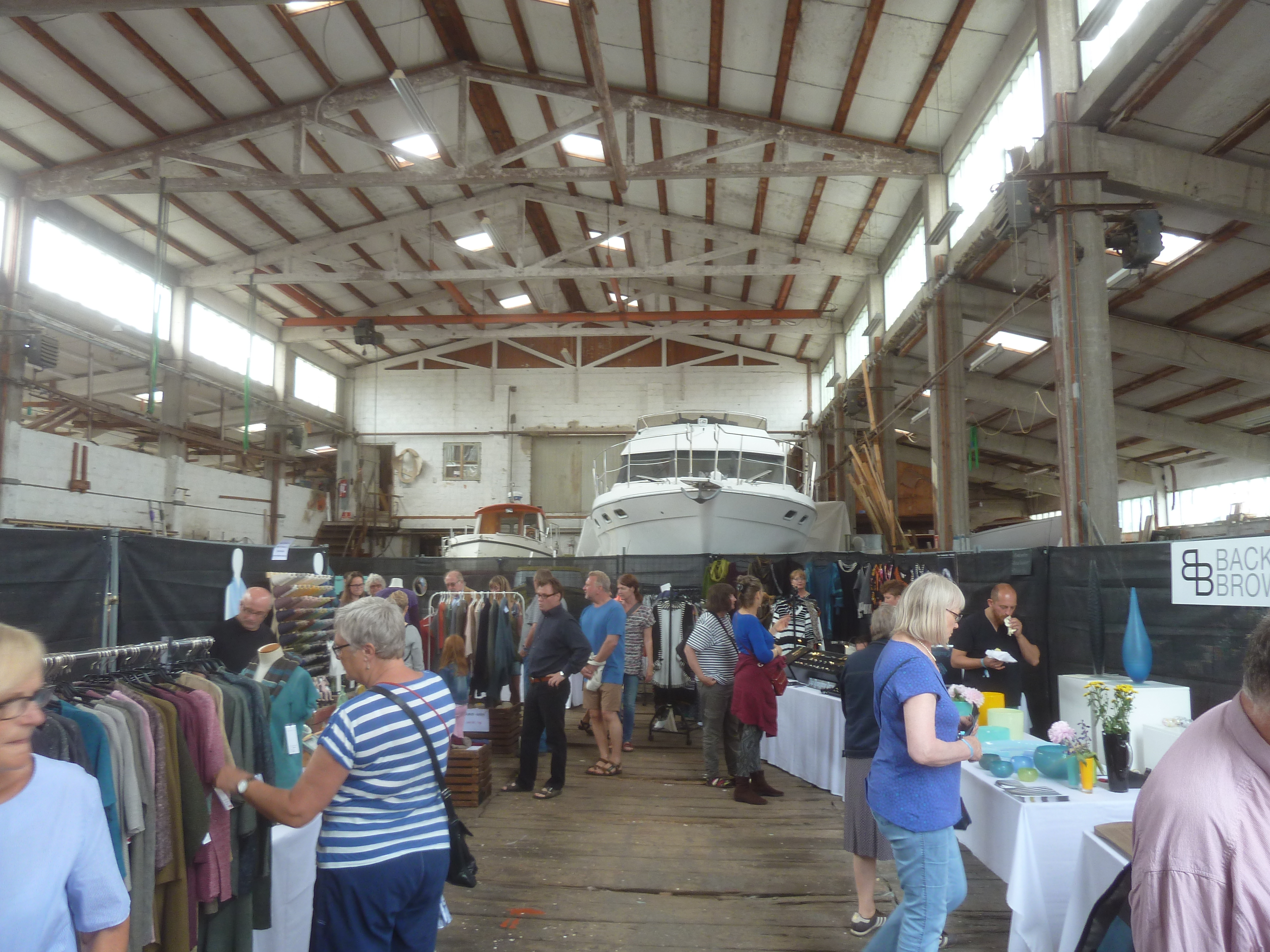 Indoor crafts market in a Building on the Harbour in Hundesgted, Denmark